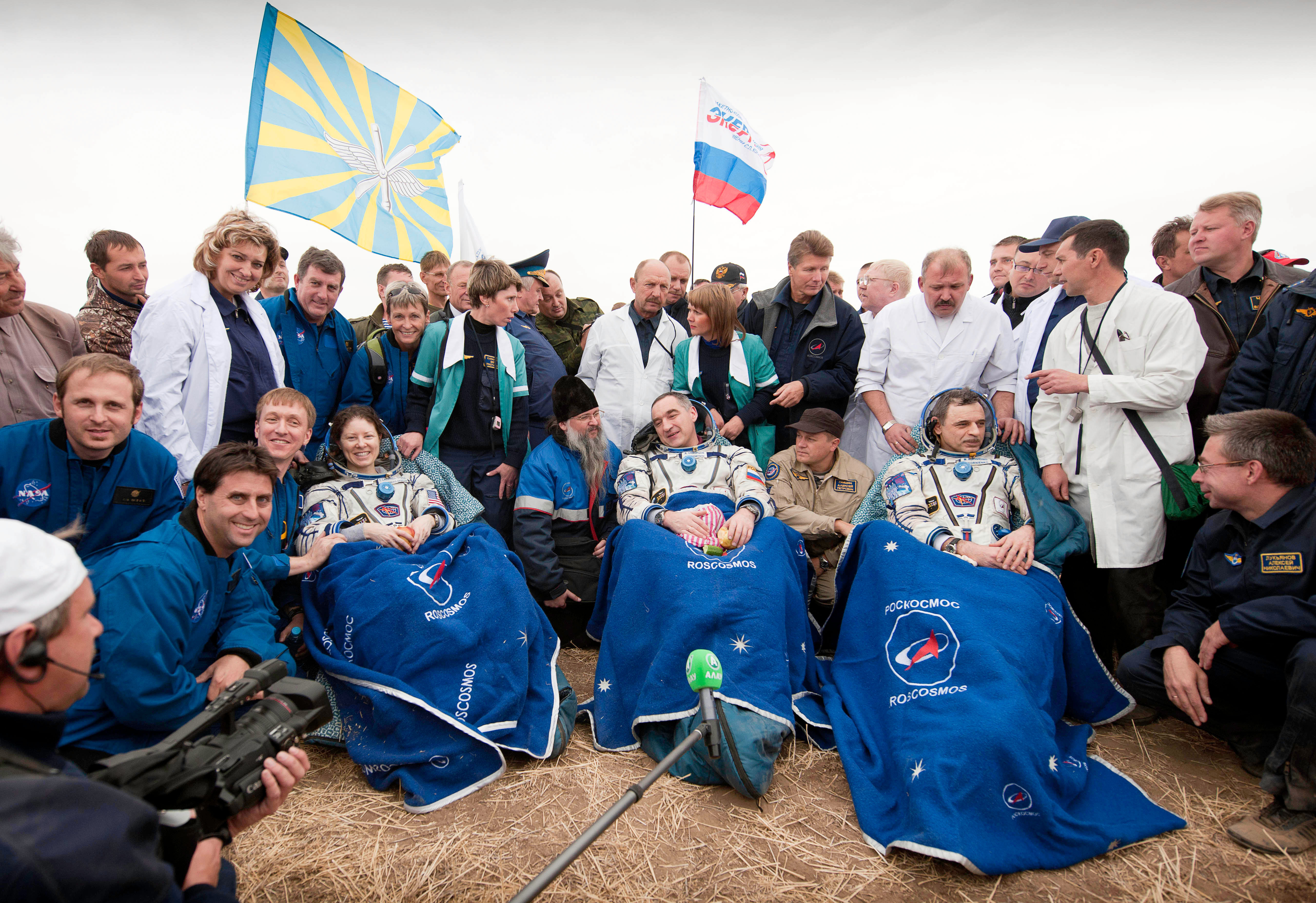 NASA astronaut Tracy Caldwell Dyson (left), Expedition 24 flight engineer, with Russian cosmonauts Alexander Skvortsov (center), and Mikhail Kornienko, flight engineer, sit in chairs outside the Soyuz capsule just minutes after they landed near the town of Arkalyk, Kazakhstan Sept. 25, 2010. Skvortsov, Kornienko and Caldwell Dyson are returning from six months onboard the International Space Station where they served as members of the Expedition 23 and 24 crews.